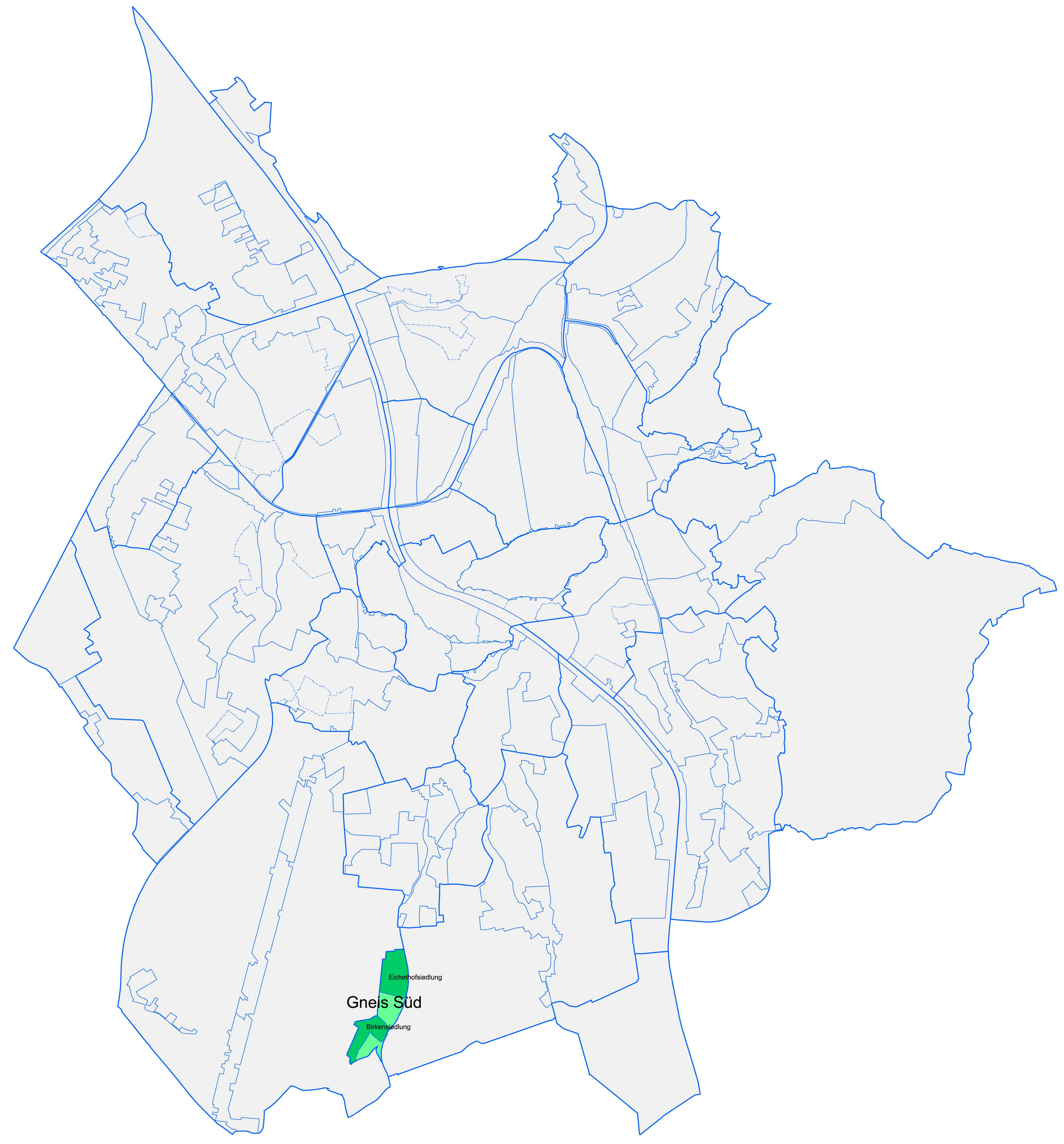 a quarter of the town of Salzburg: Gneis Süd